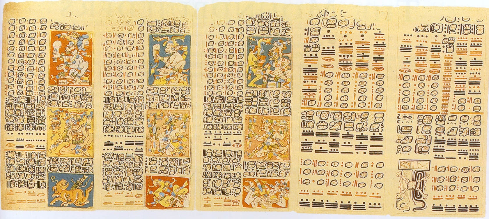 The Dresden Codex, pp. 47, 48, 50, 51, 52, first redrawing by Humboldt in 1810